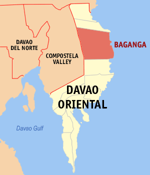 Map of the Davao Oriental showing the location of Baganga